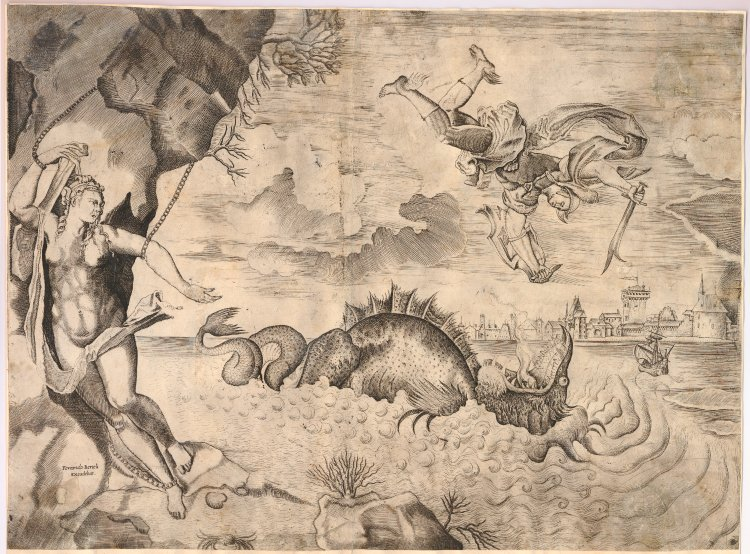 Perseus flying down to attack the dragon, watched by Andromeda chained to a rock at the left; in the distance a town across the sea. 1550s? Engraving. After the Painting by Titian (Wallace Collection)